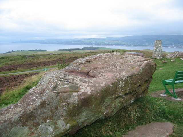 Glaid Stone, Great Cumbrae